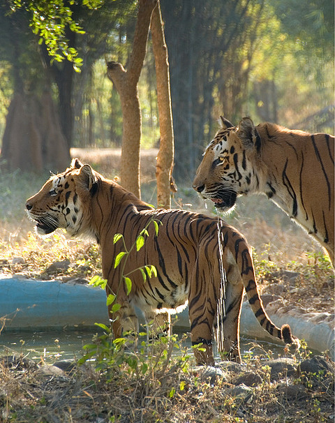 Tigers at Bannarghetta zoo have their very own pub that they visit many times a day and order a "Water on the Rocks".. Here two buddies are sharing a private time..